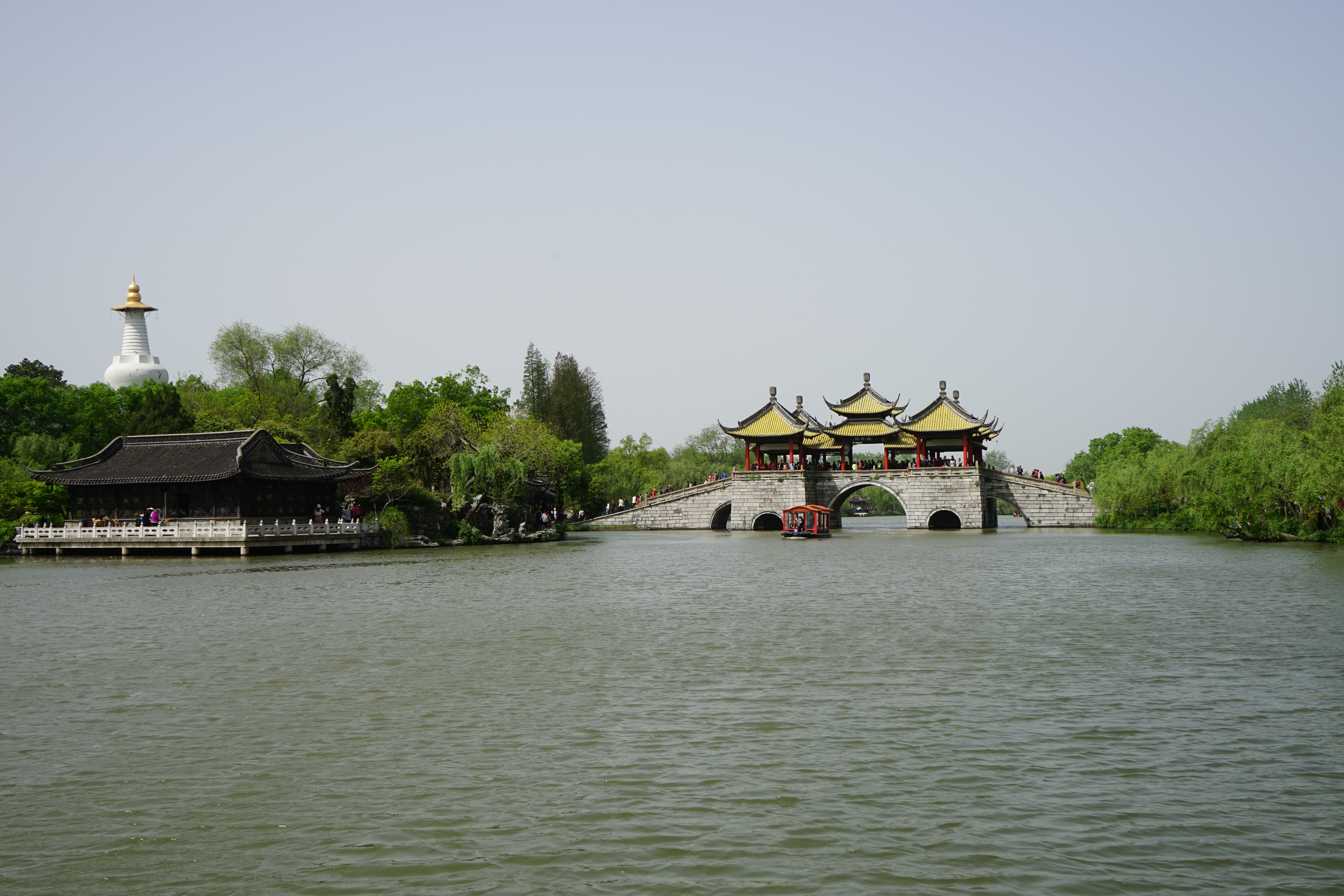 Five Pavilion Bridge and White Pagoda